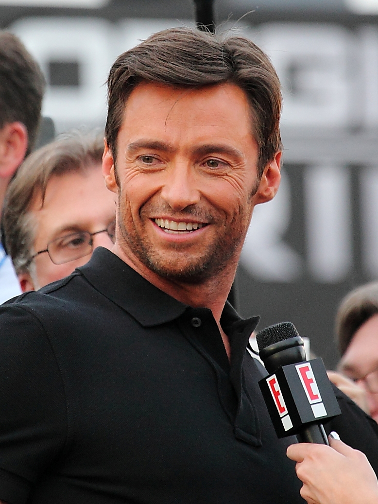 Hugh Jackman at the X-Men Origins: Wolverine premiere in Tempe, Arizona.